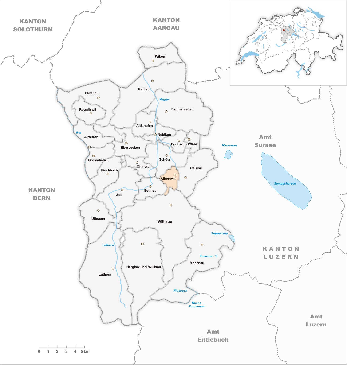 Municipality Alberswil